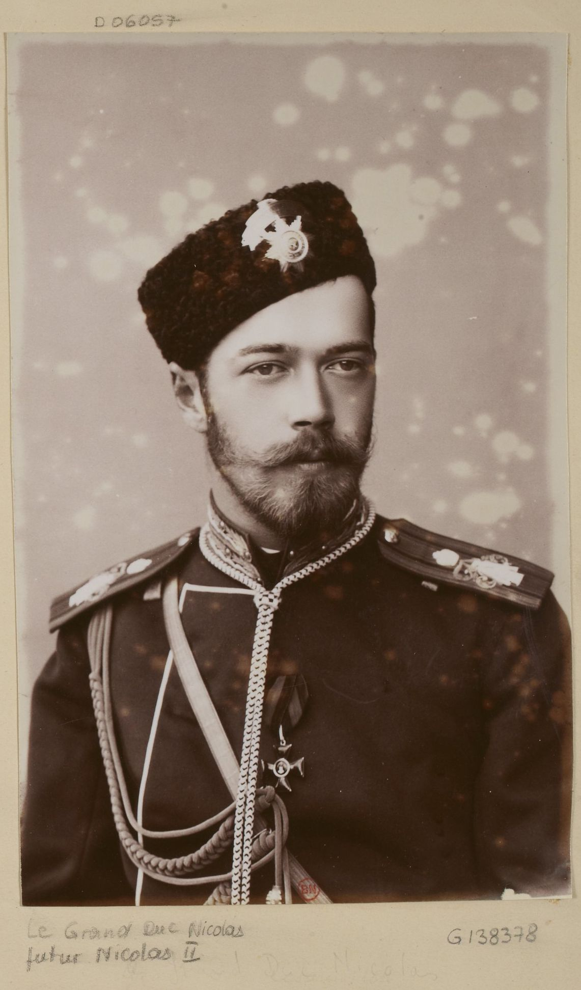 Tsarevitch Nicholas Alexandrovitch, the future Nicholas II of Russia.